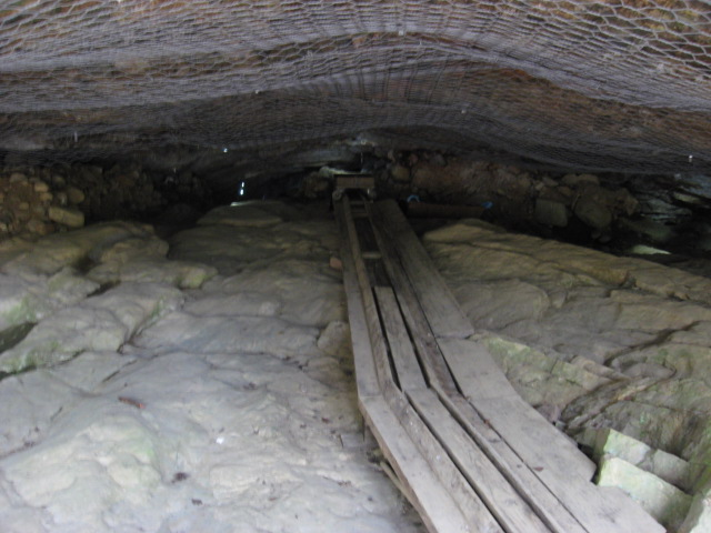 Wolf Cave in July 2008.